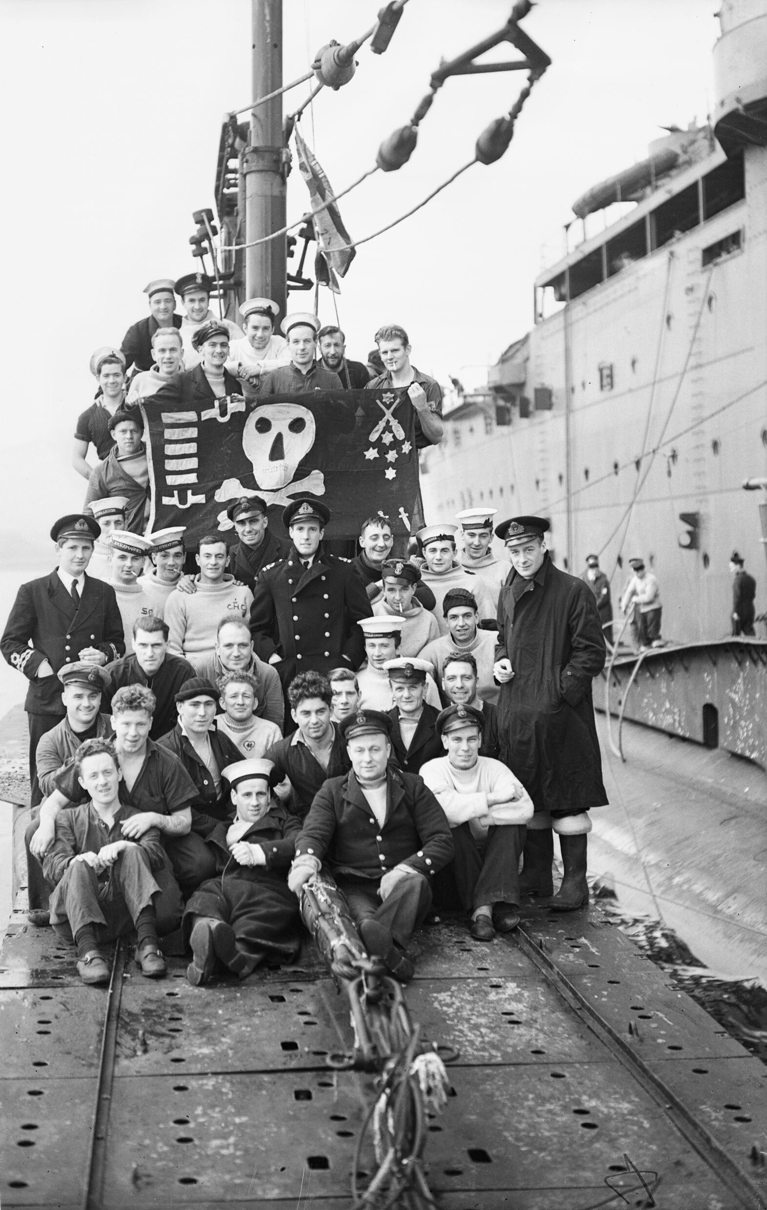 Lieutenant B J Andrew, RN (centre) with the crew of HM Submarine THUNDERBOLT and their 'Jolly Roger' flag. They had just returned from the Mediterranean to the Submarine Depot Ship HMS FORTH in Holy Loch, Scotland.